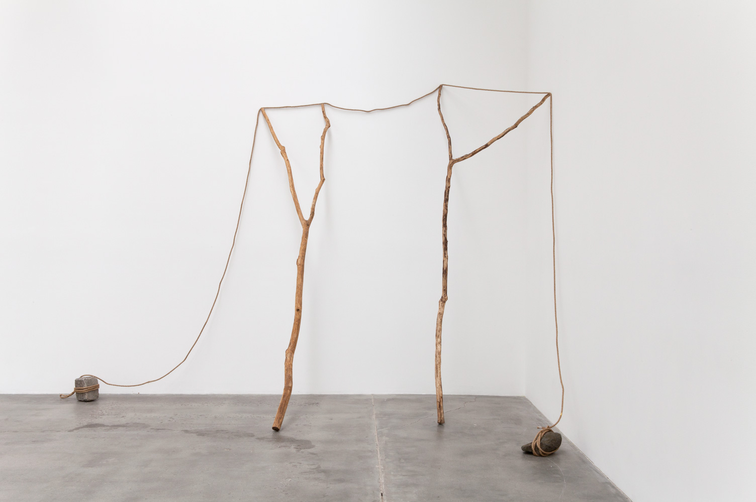 "In the State of Equal Dimension", 1973Branches, rope, stoneCourtesy of the artist and Blum & Poe